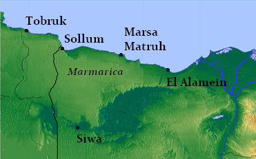 Copyright © 2005 David Monniaux